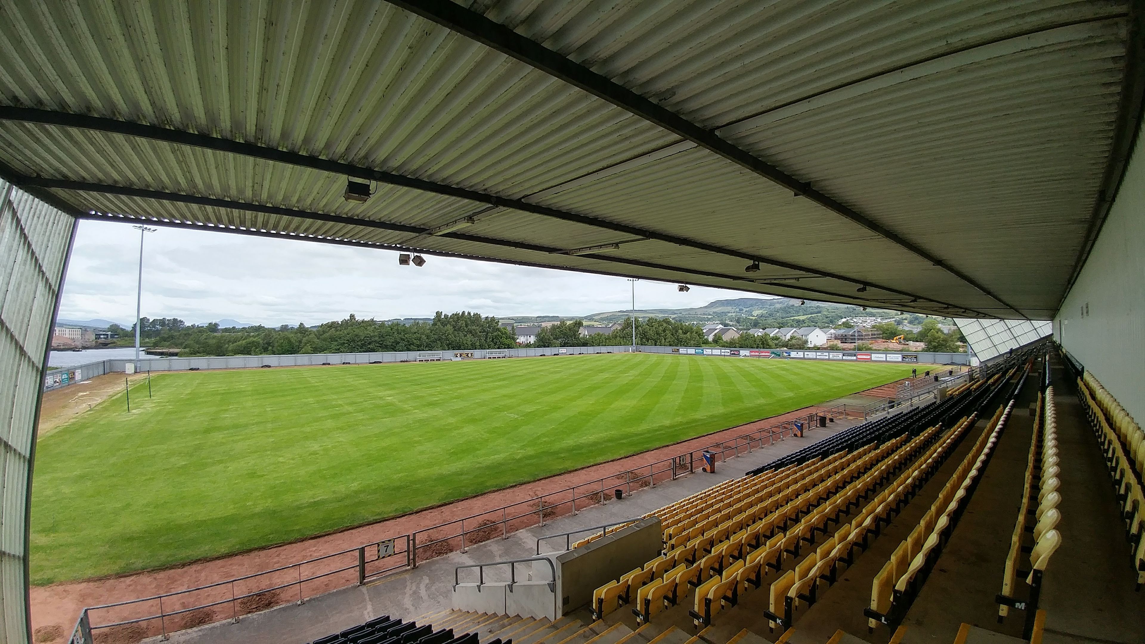 View from the stand at the Dumbarton Football Stadium in Dumbarton, West Dunbartonshire, Scotland. Home of Scottish League One side Dumbarton FC.